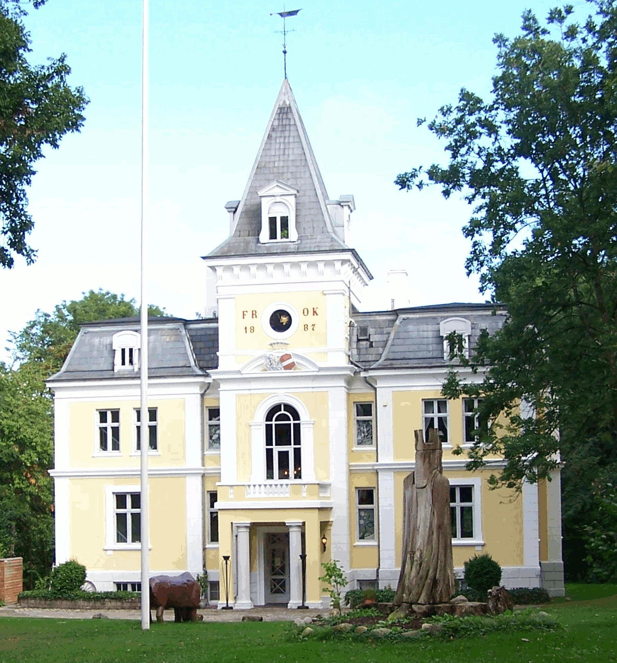 liselund castle